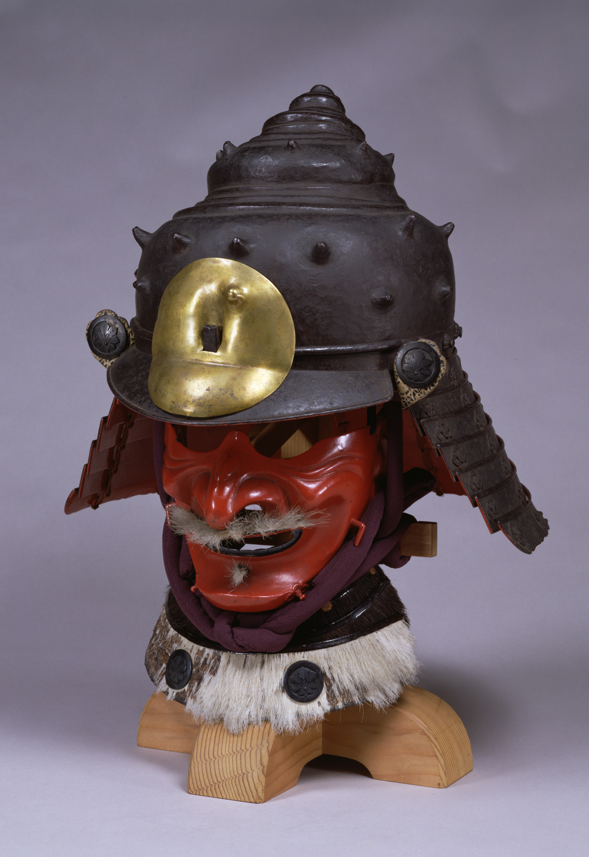 Kabuto of Gusoku Type Armor With two-piece cuirass with white lacing, Edo period, 17th century, Tokyo National Museum